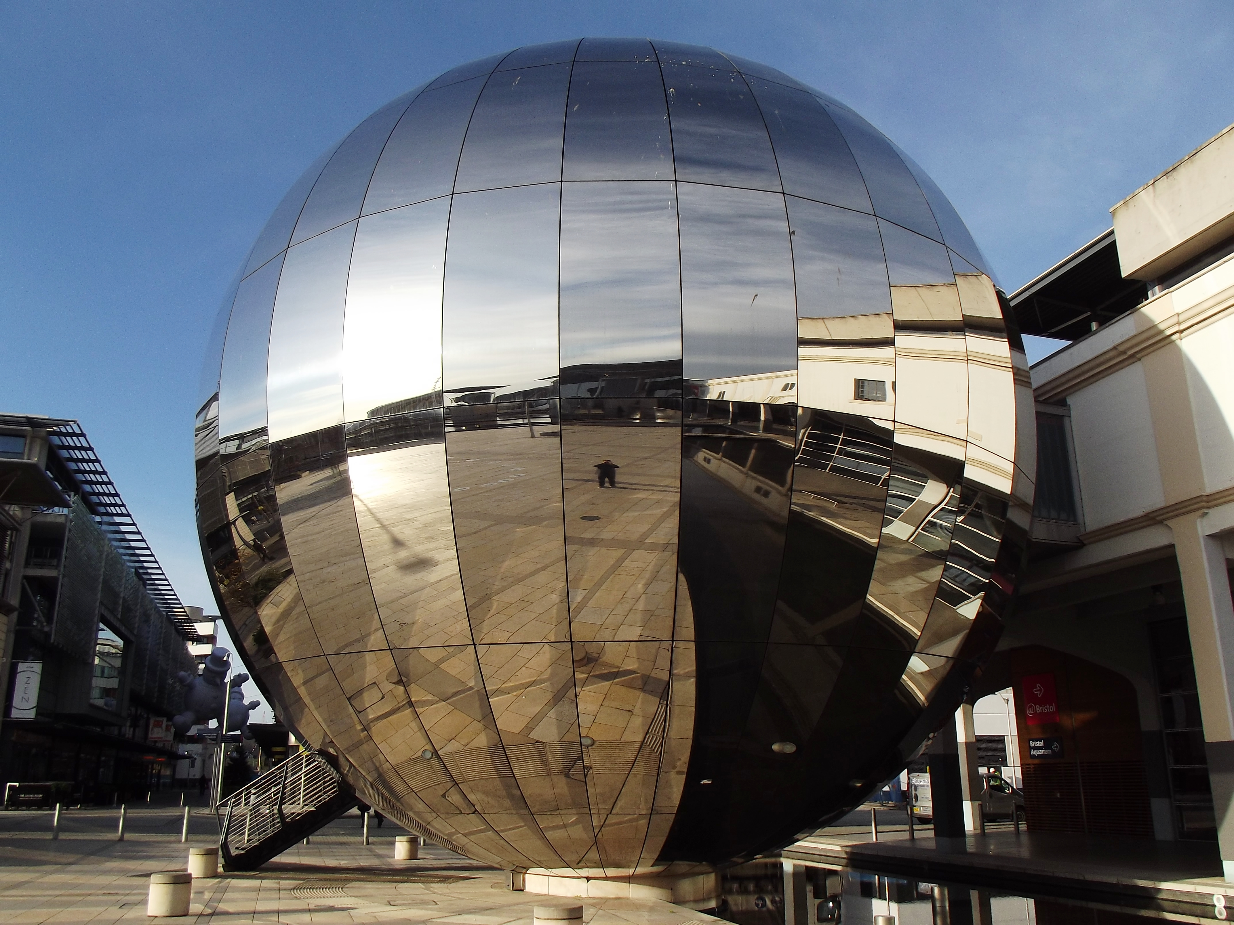 The chrome-plated dome of Bristol Planetarium, in Millennium Square, part of the At-Bristol science and discovery centre. The small figure reflected in the centre of the dome is me, taking the photo! When I took the shot I did not realise that the dome was a planetarium. Cathedral City Guide visited Bristol in December 2011. For more about the cathedral city of Bristol